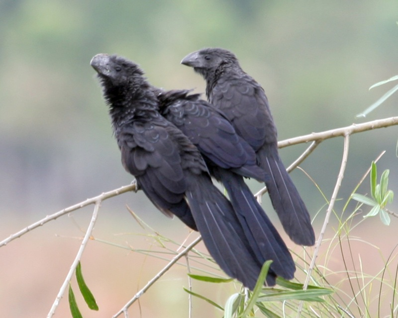 Smooth-billed Ani Crotophaga ani Ibera Marshes 2nd. April 2006 Distribution according to NatureServe